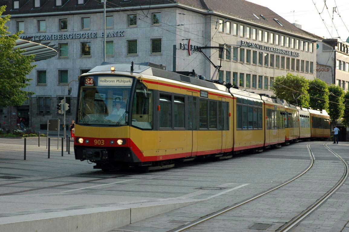 AVG's Car no. 903 of type GT8-100D, location: Heilbronn, train number: 82327